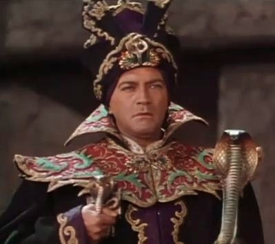 Edgar Barrier in Cobra Woman - trailer (cropped screenshot)